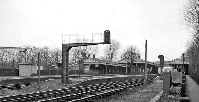 Barnes Station. View eastward, towards Clapham Junction and Waterloo; Waterloo - Richmond, Windsor, Reading etc. main line, junction for Hounslow Loop (behind camera).